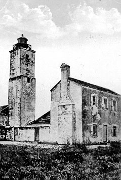 Original Anastasia Island lighthouse, now destroyed, in St. Augustine, Florida. Lower parts of the coquina tower dated to the First Spanish Period. Caption from Wikipedia at St. Augustine Light: "The 1824 lighthouse was established on the site of the Old Spanish watchtower."